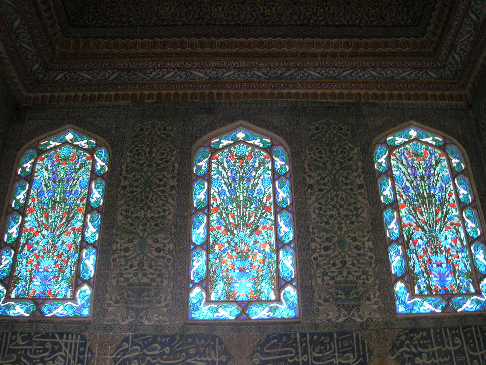 stain-glass windows inside the apartments of the crown prince, Topkapi Palace, Istanbul.